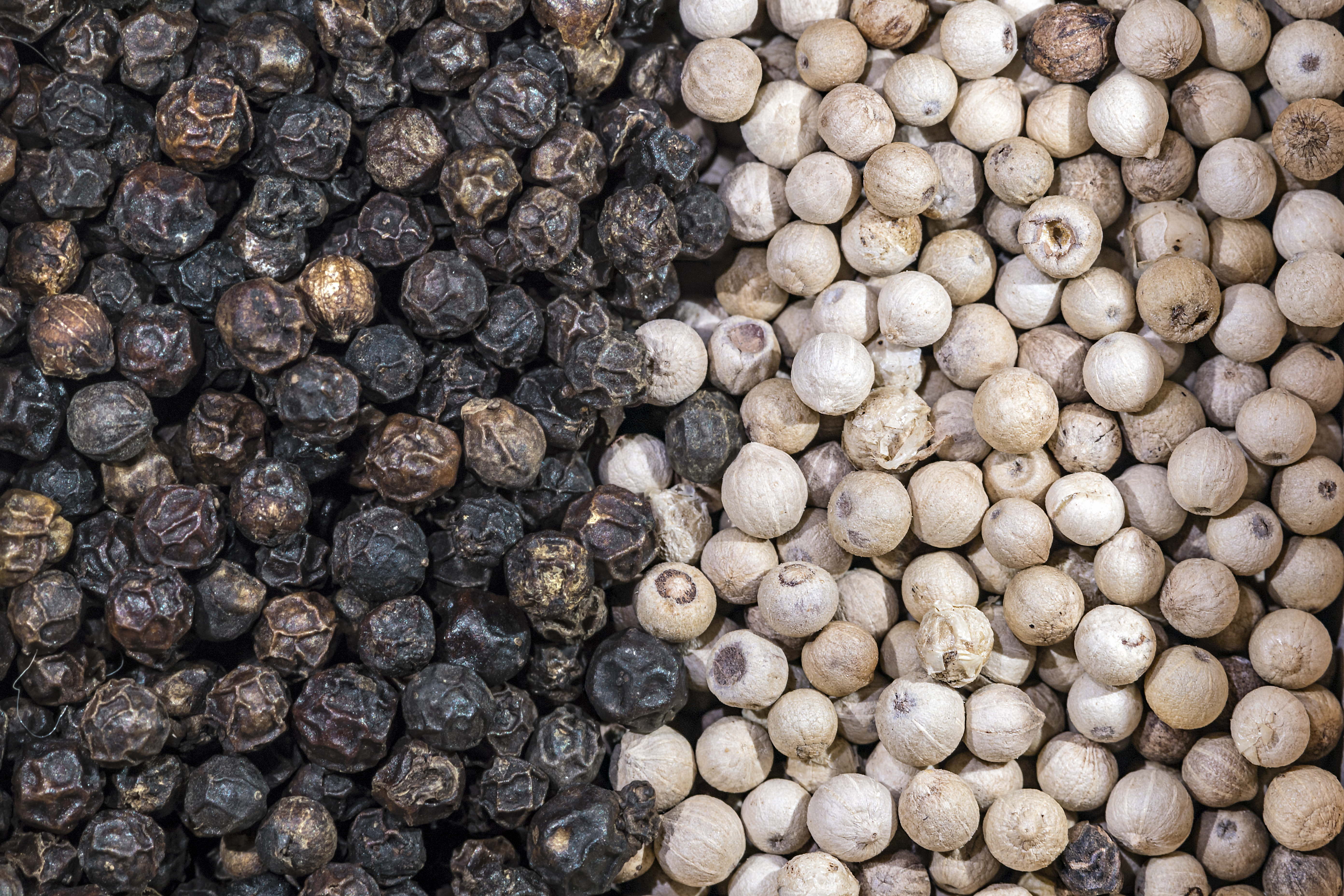 Piper nigrum - Dried fruits with and without pericarp.